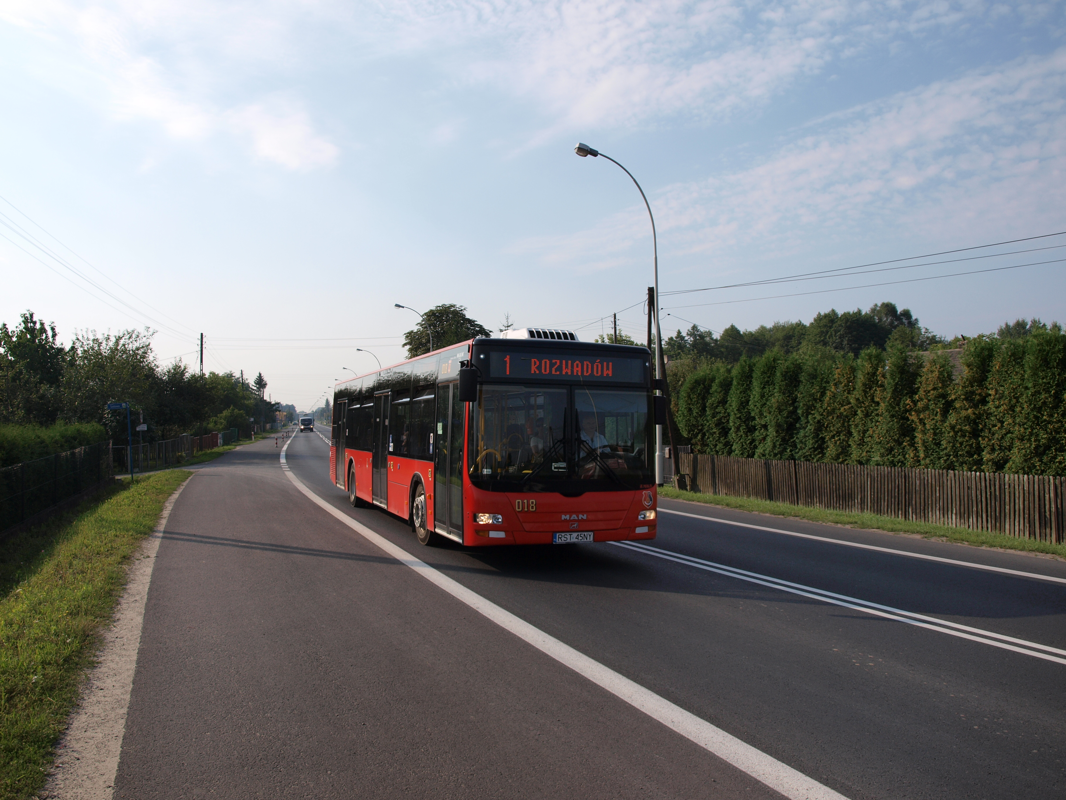 MAN NL 273 Lion's City bus owned by ZMKS Stalowa Wola on line 1 in Nisko, Poland.